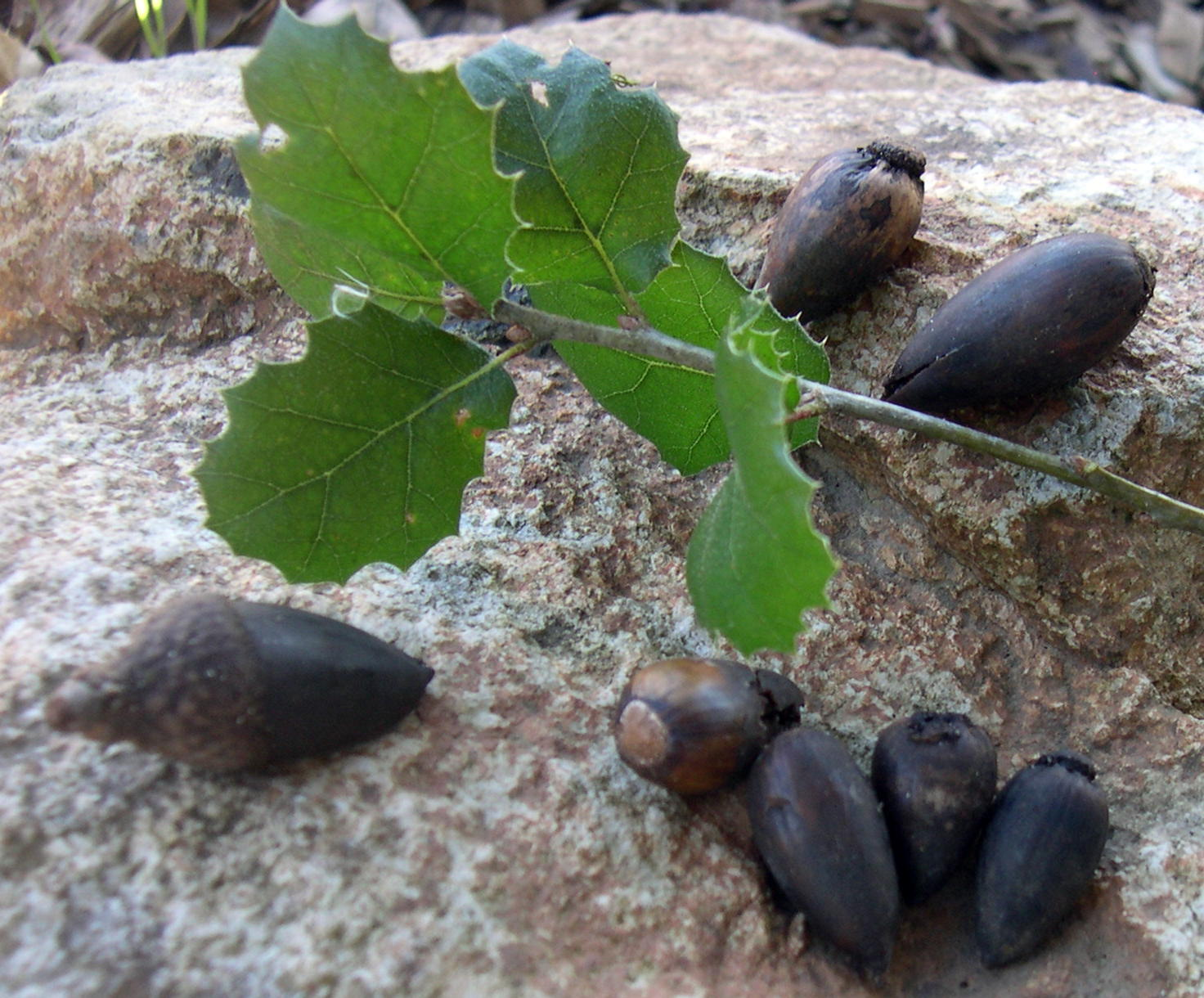 Acorns and leaves, quercus agrifola.